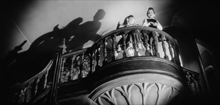 Screenshot from The Innocents trailer